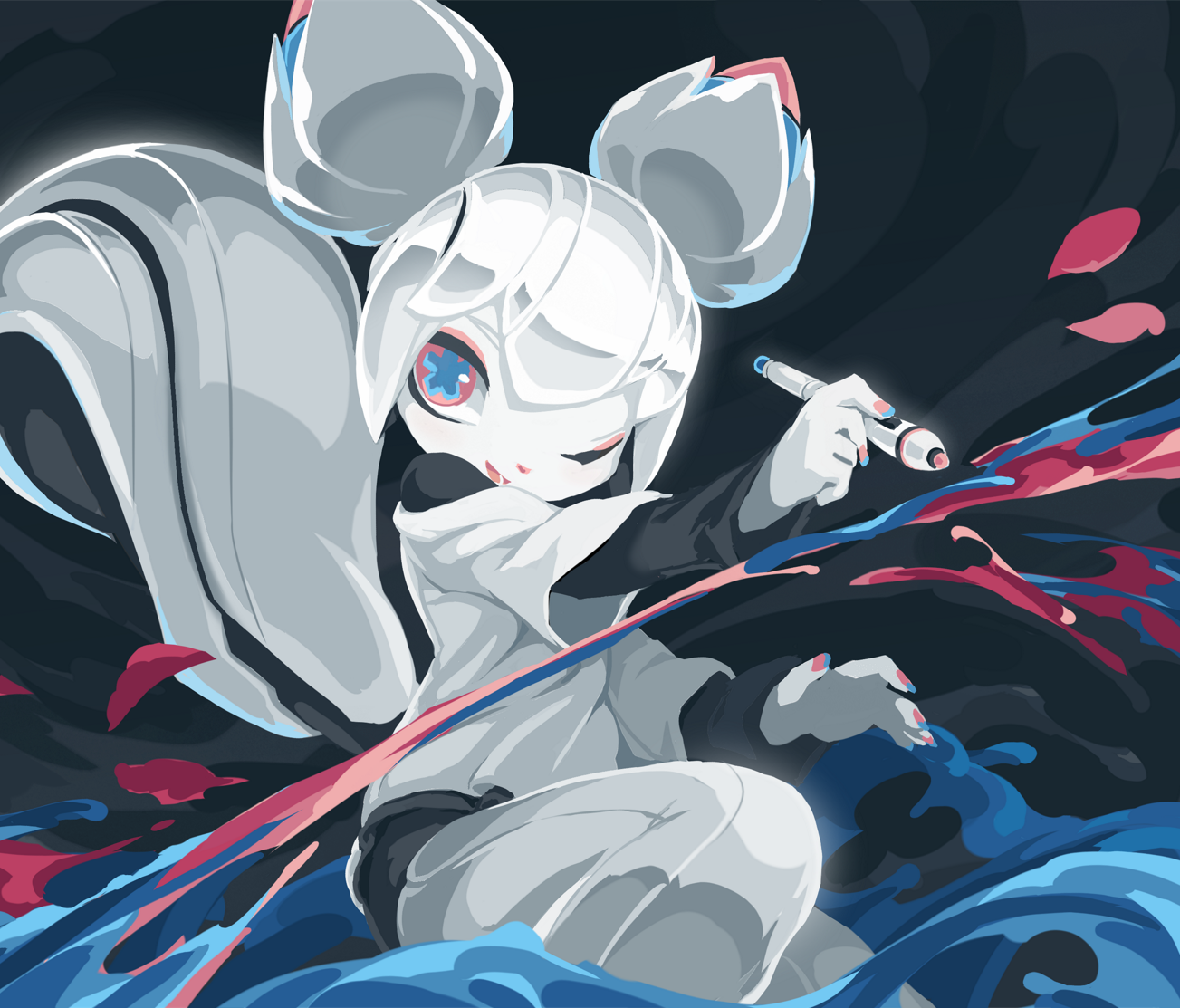 Kiki the Cyber Squirrel cropped